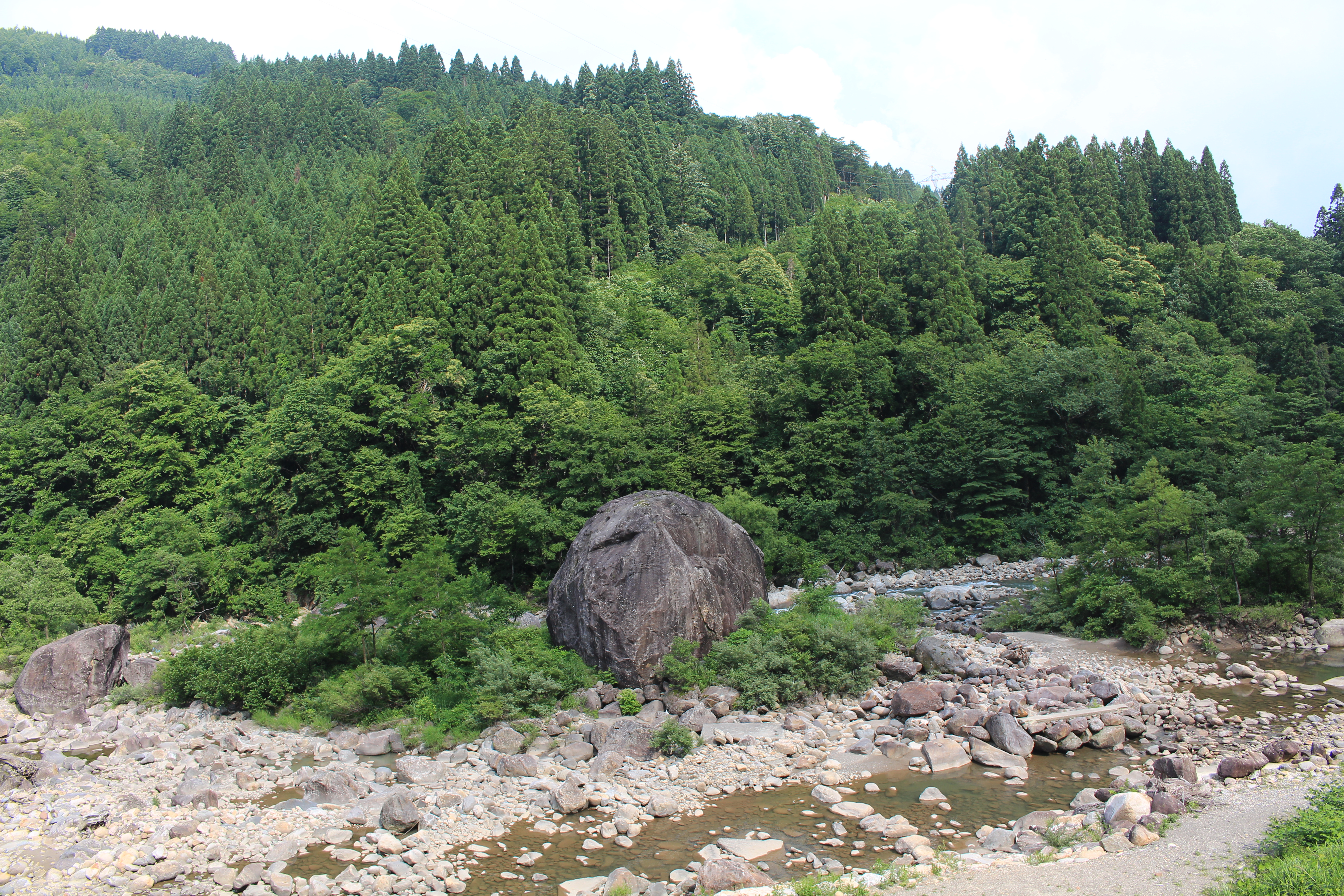 Tedori river and Hyakuman-gan Rock in Shiramine, Hakusan, Ishikawa prefecture, Japan.